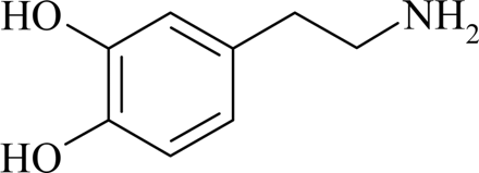 Structure of dopamine. This is a partial agonist of human trace amine associated receptor 1.